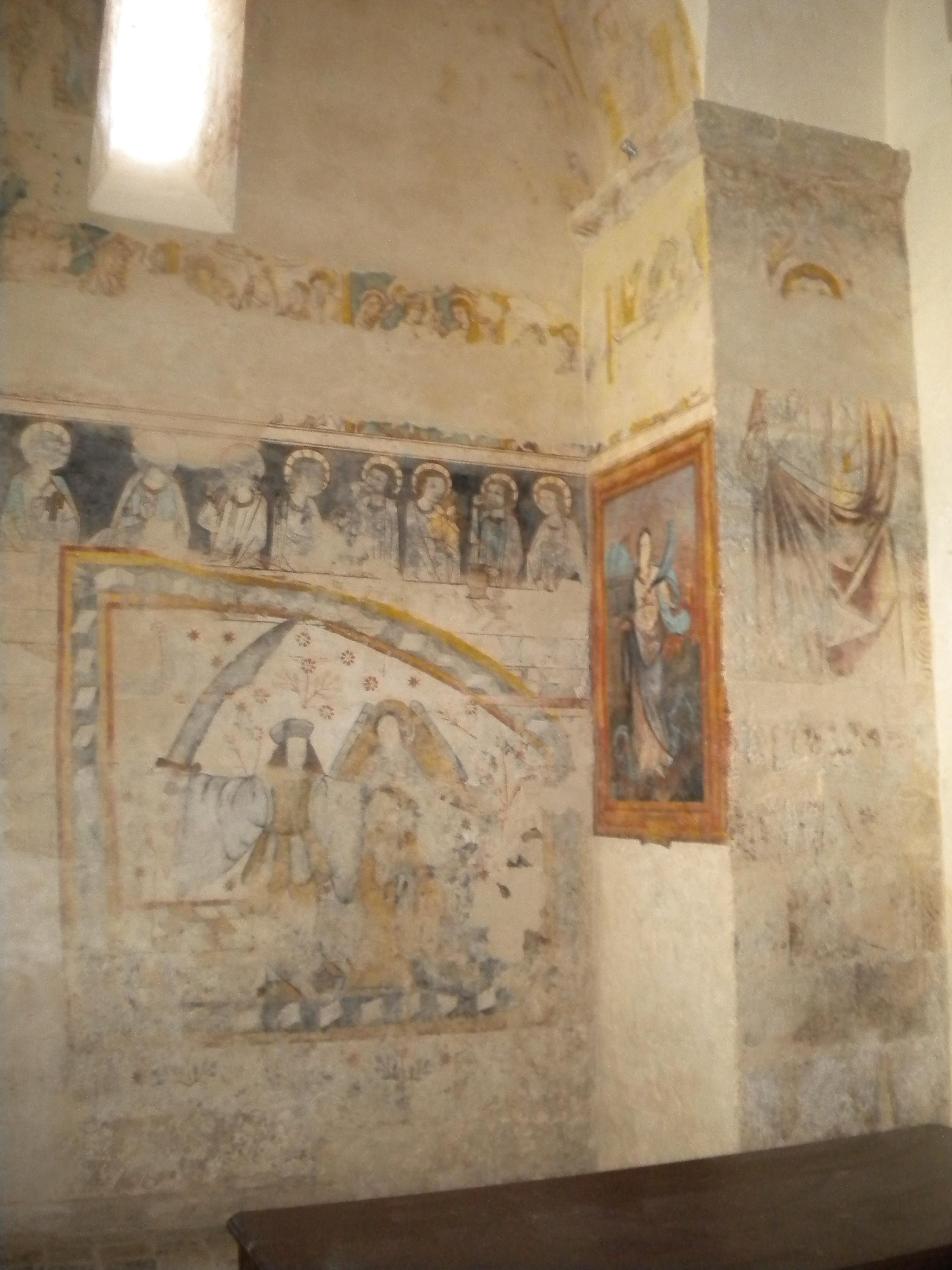 14th century frescoes in the village church Sainte-Marie of Bourg-des-Maisons, Dordogne, France.